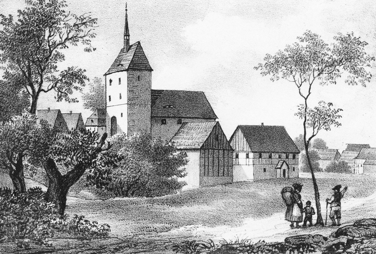 Wiprecht Church in Eula (Borna), 1841